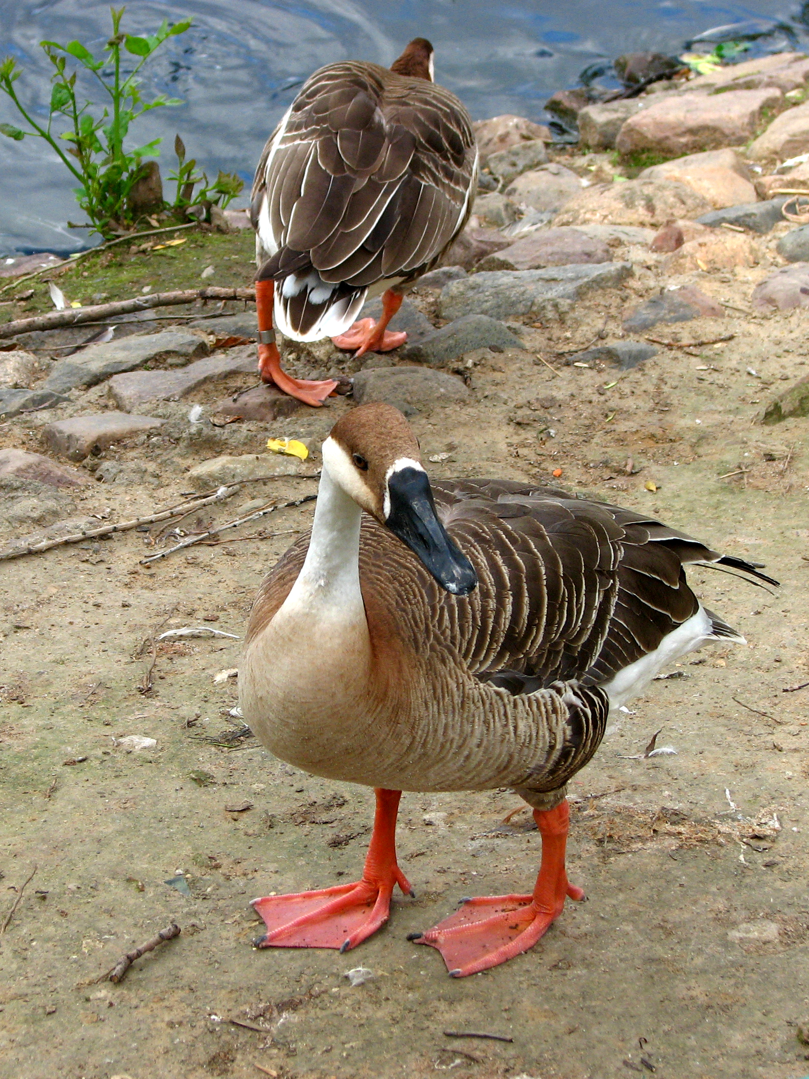 Moscow Zoo. Swan Goose (Anser cygnoides)